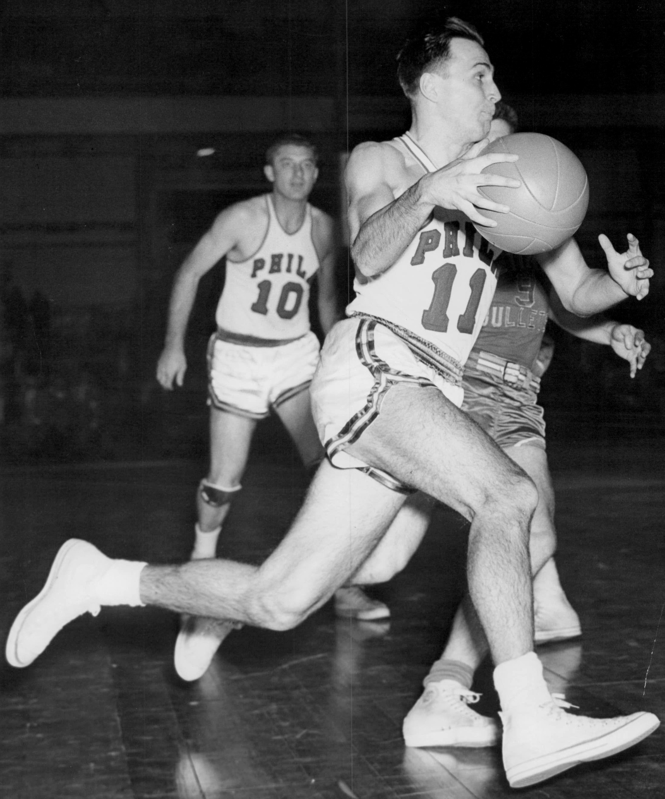 Professional basketball players Joe Fulks (left) and Paul Arizin (right)